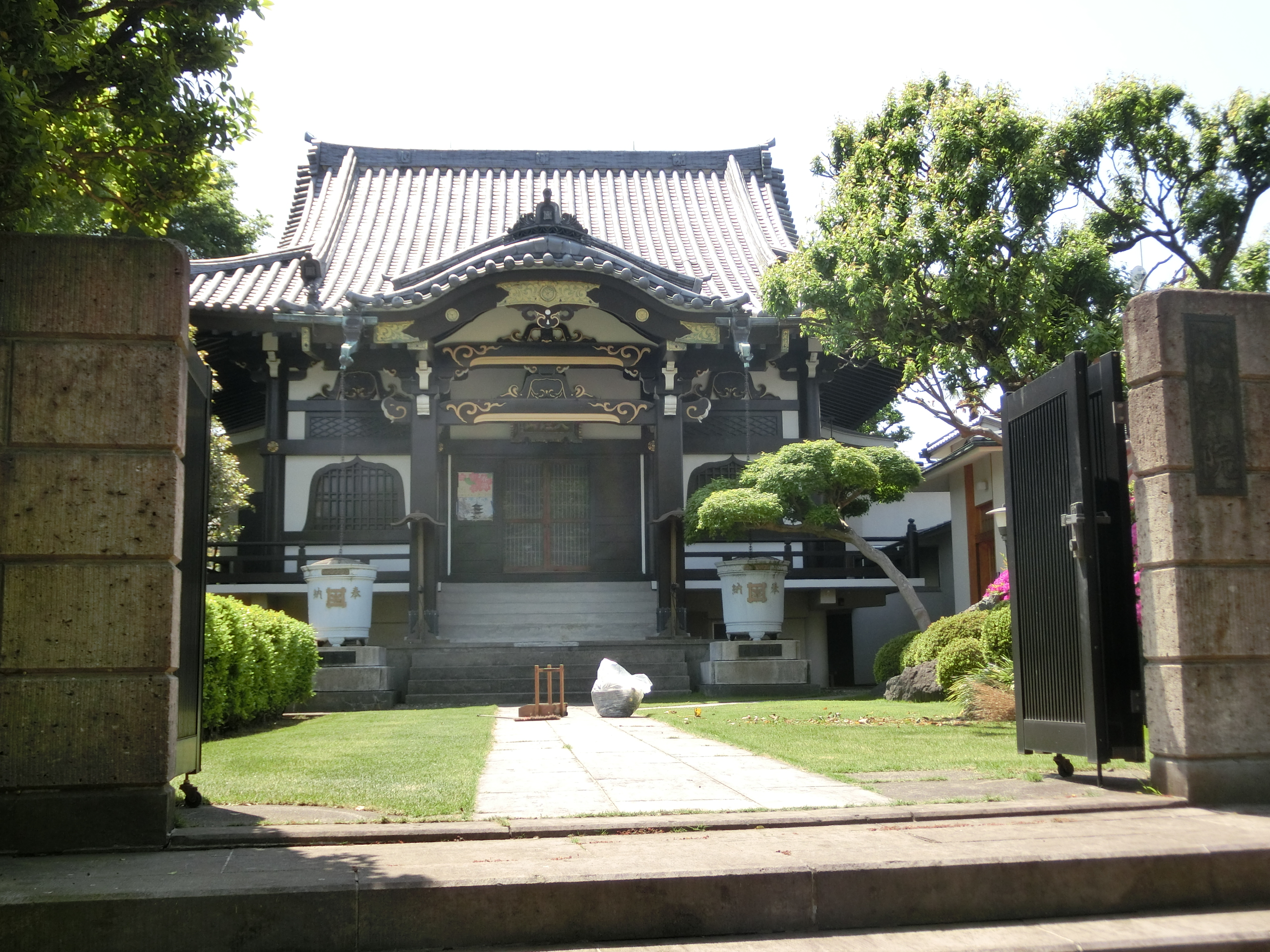 Shinjo-in (Ota, Tokyo)